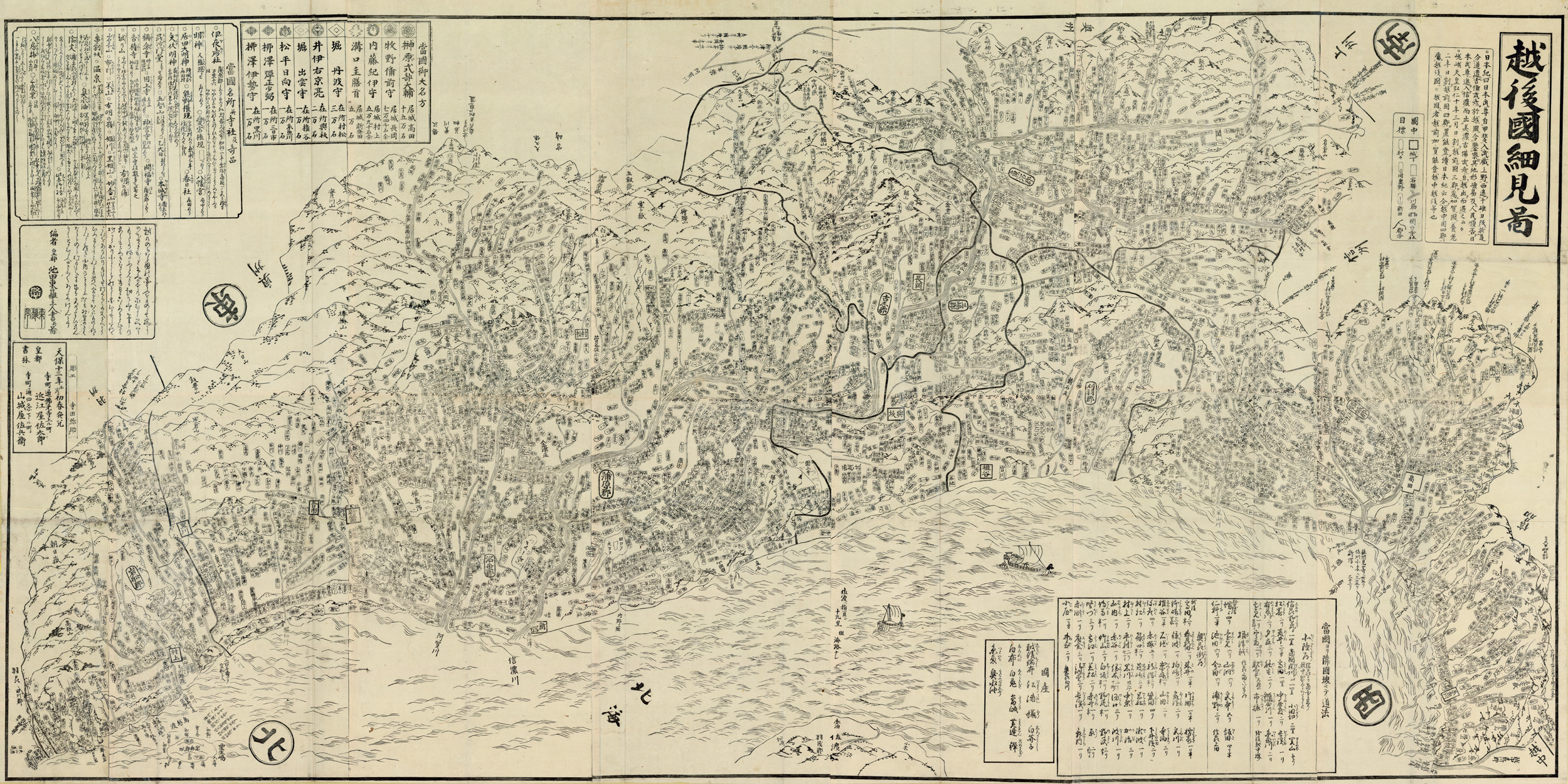 Alternative Title: Echigo no Kuni saikenzu Creator: Ikeda, Tōritei Date Issued: 1842 Source: University of British Columbia Library - Rare Books and Special Collections. Japanese Maps of the Tokugawa Era. Permanent URL: Project website